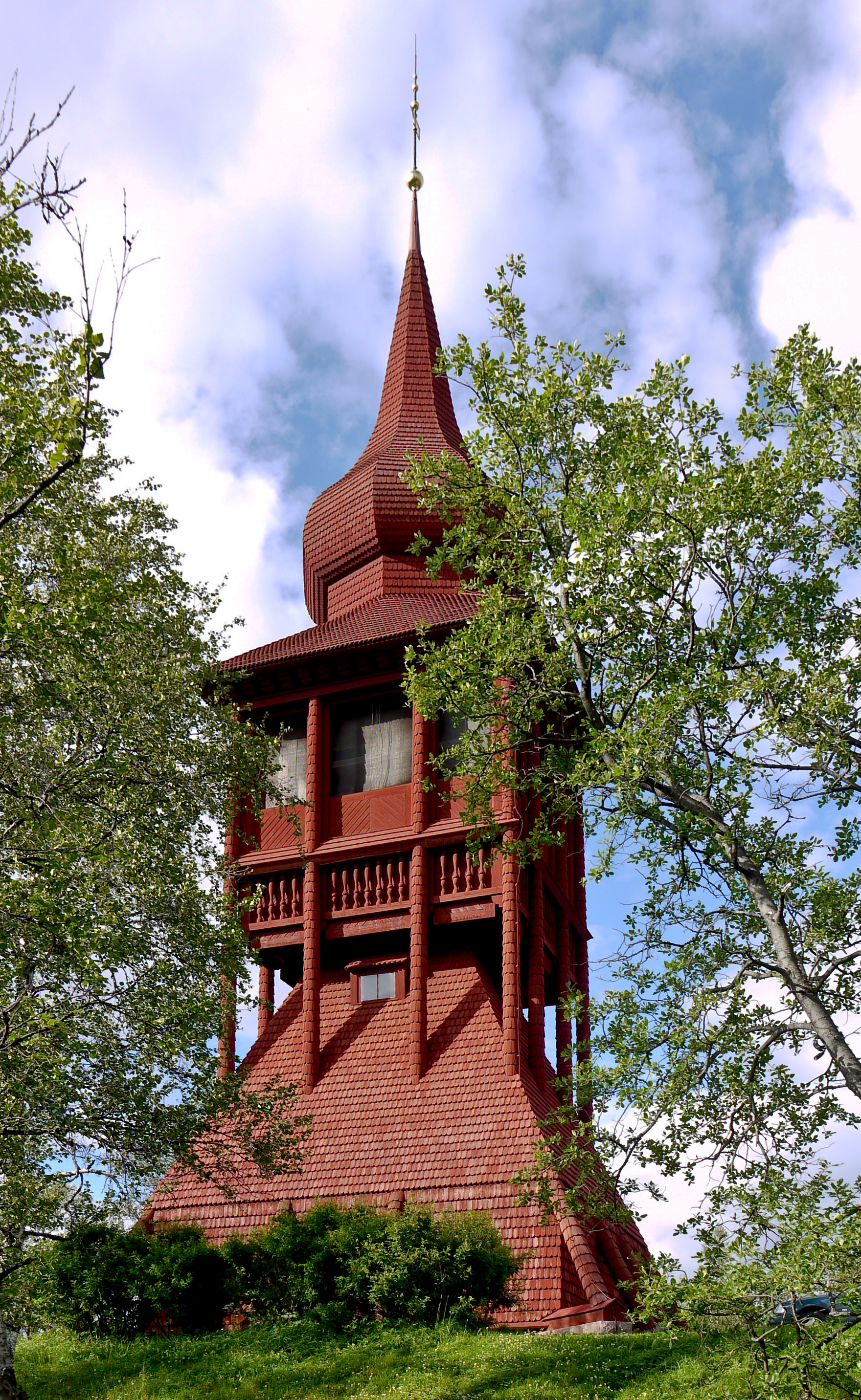 Kiruna kyrka/church, Diocese of Luleå, Kiruna, Sweden. Bell tower.